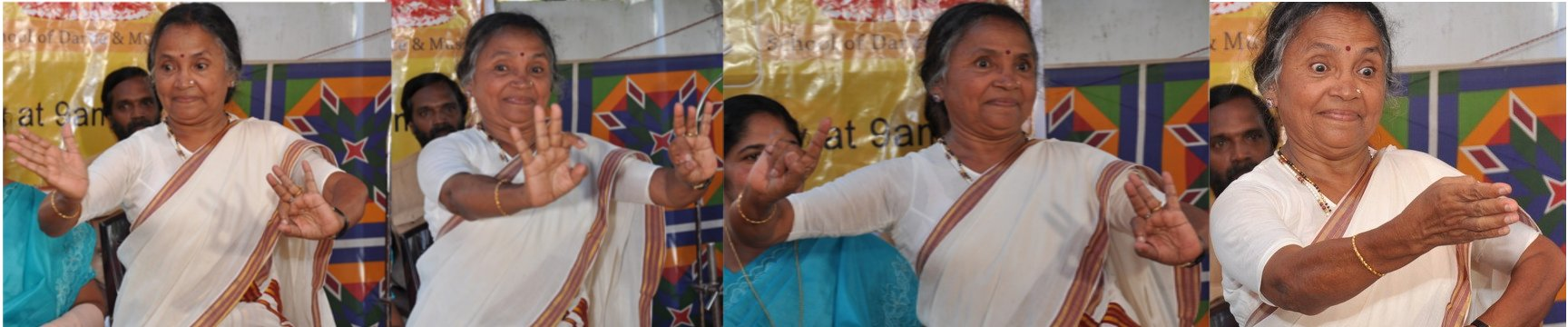 Chavara parukutty the first woman Kathakali artist in action